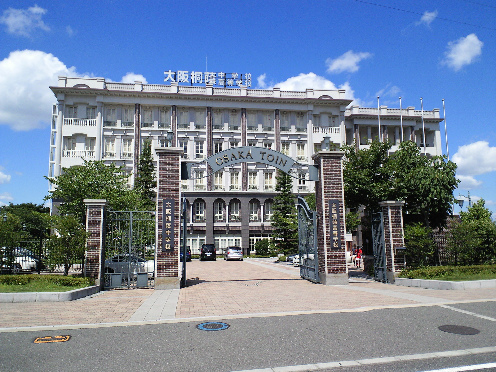 Osaka-Toin HighSchool&Jr HighSchool